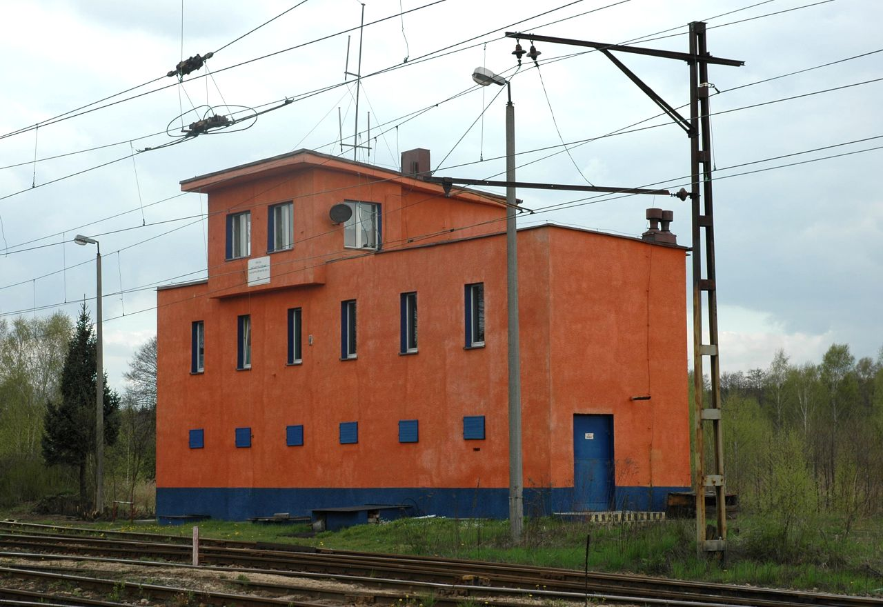 signal box, Szczakowa Północ - station on the railway network of Infra SILESIA, Poland